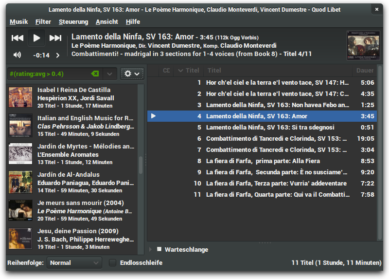 Screenshot of 3.0 release of media player software Quod Libet